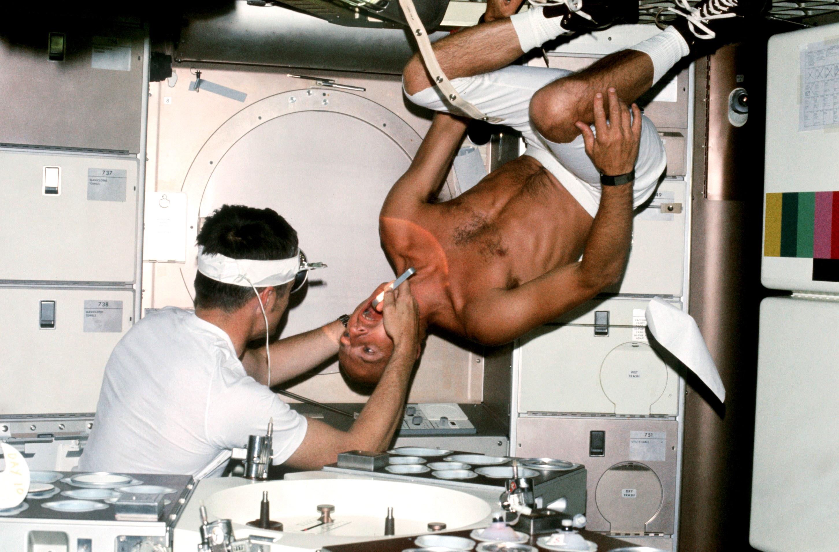 NASA astronaut Charles "Pete" Conrad, commander of the Skylab 2 mission, undergoes a dental exam by Medical Officer Joseph Kerwin in the Skylab Medical Facility.